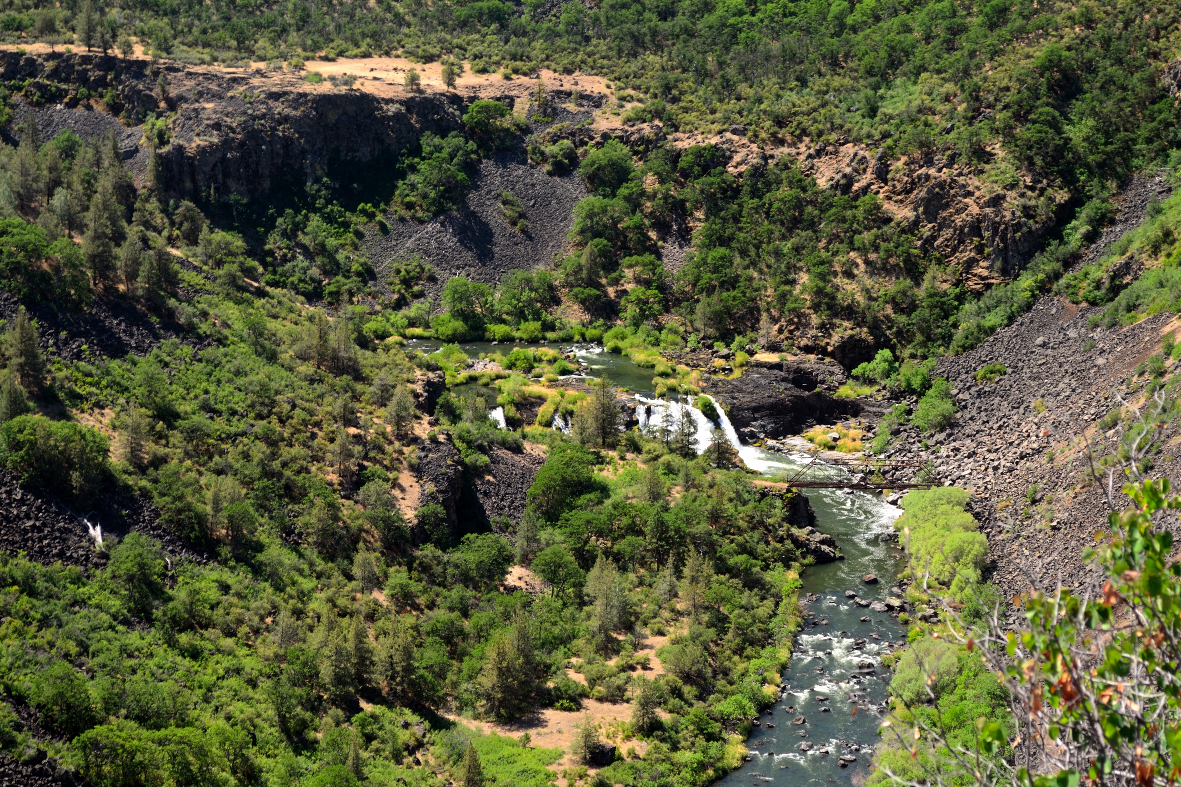 The Pit River Falls near Fall River Mills, California